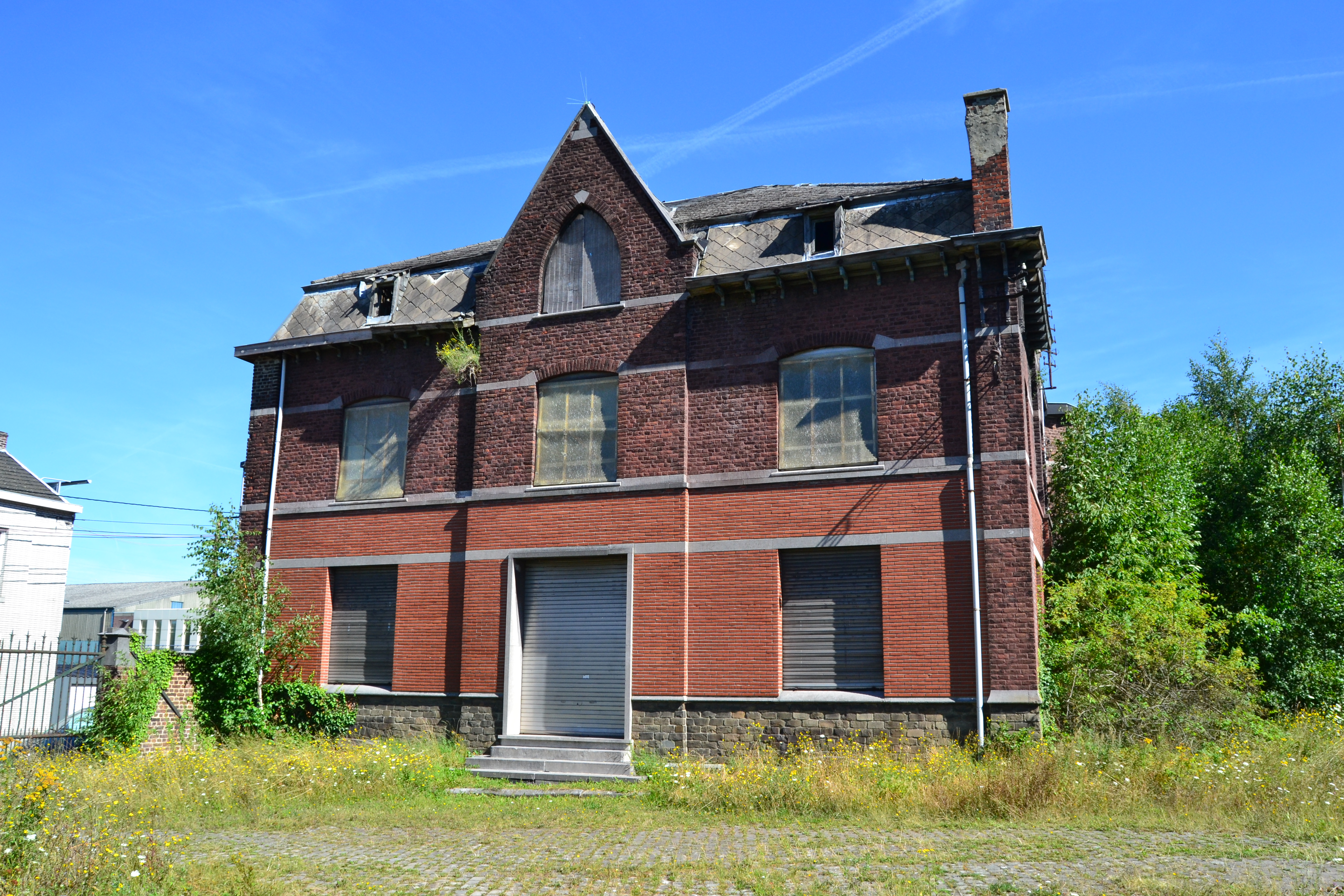 Ancient administrative seat of the Ans and Rocour coal mine, in Liège, Belgium